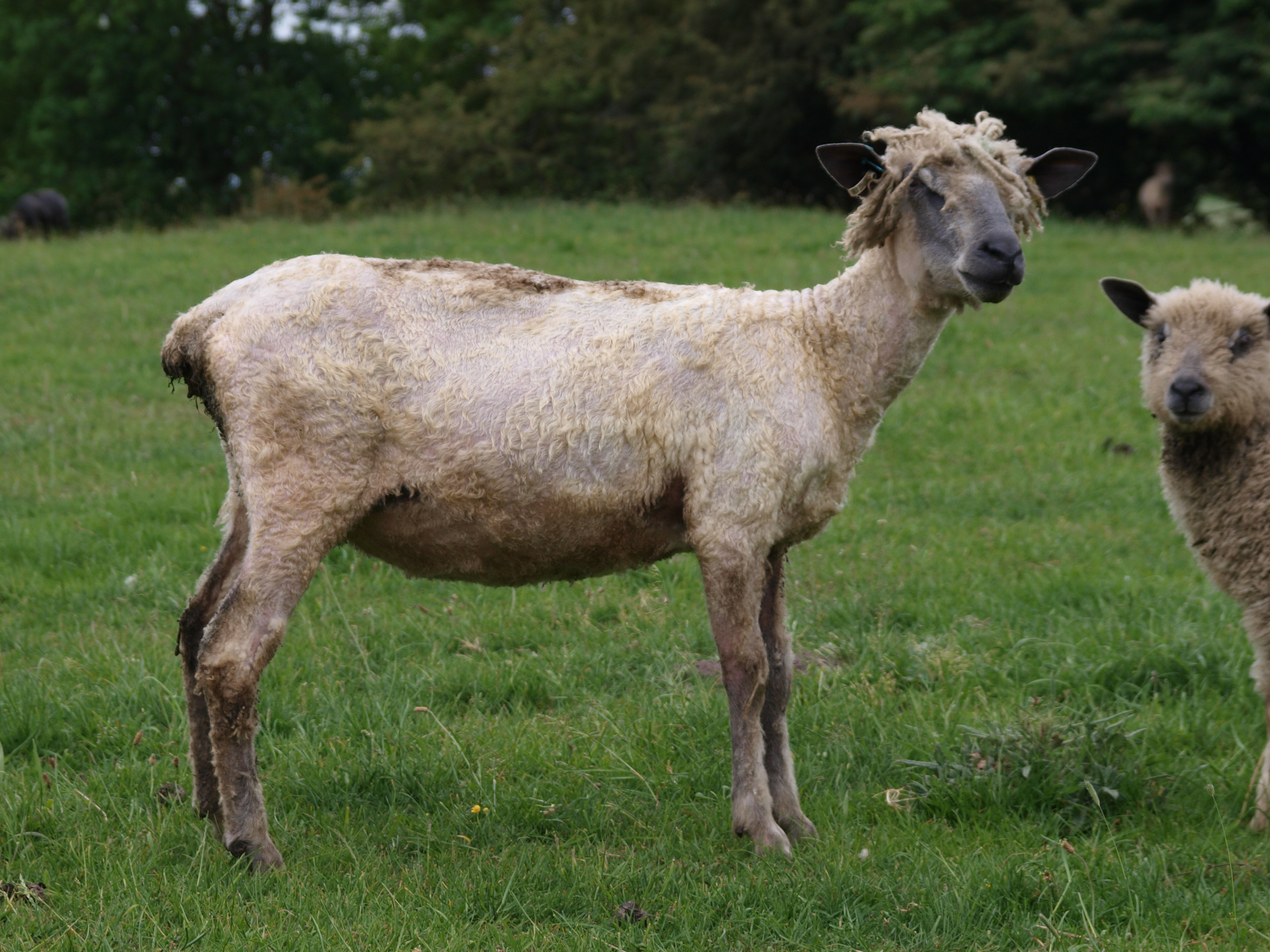 Freshly shorn female Wensleydale sheep